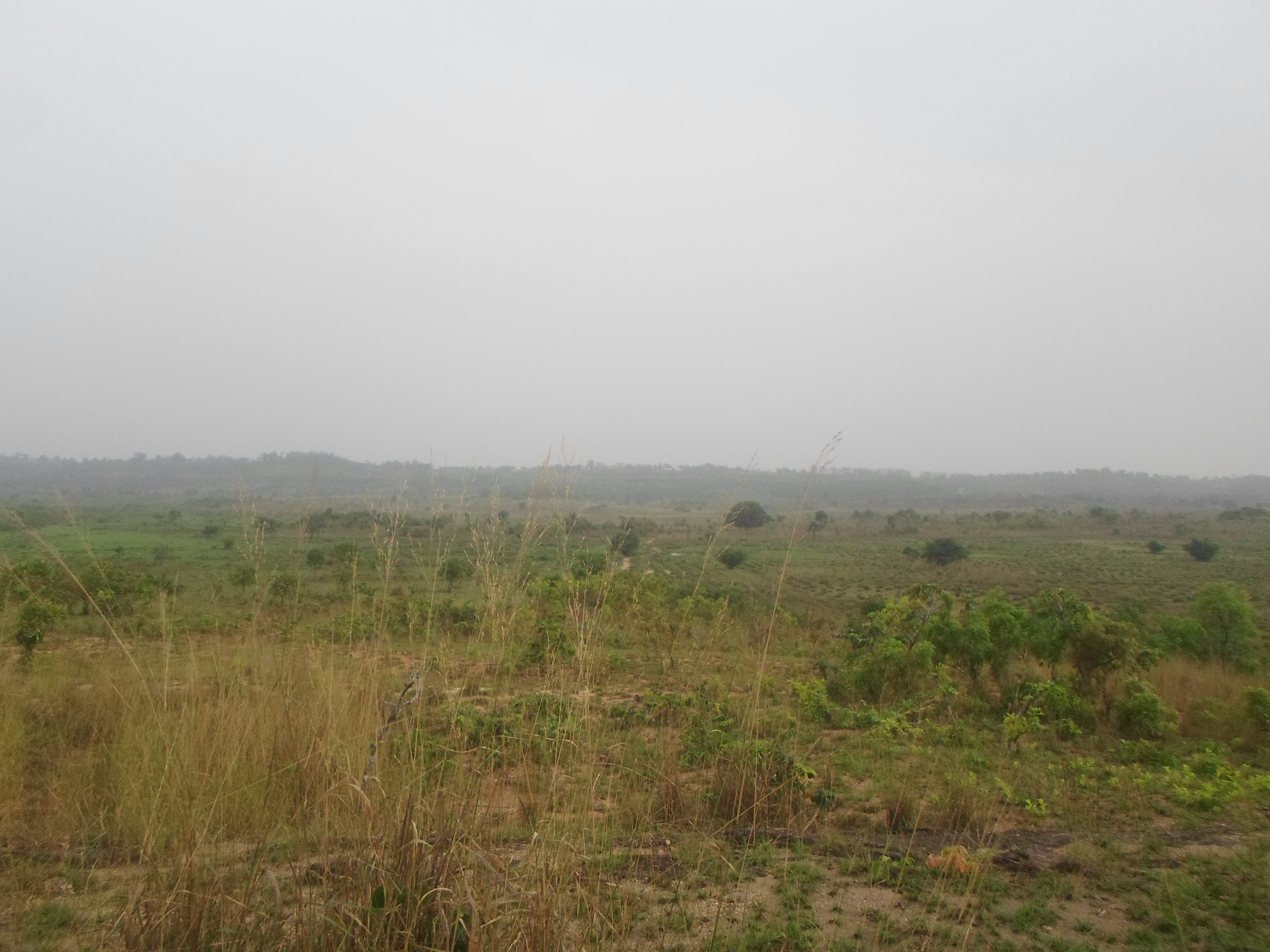 This is an image with the theme "Play" from: Nigeria